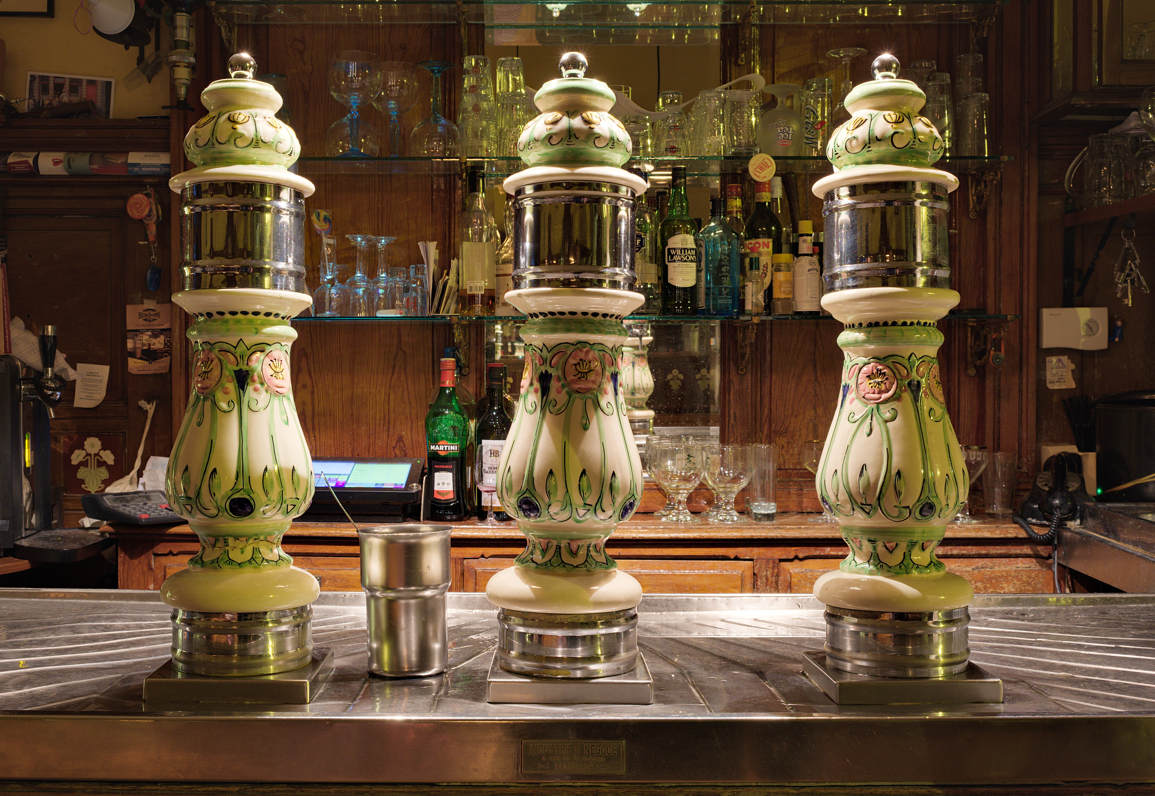 Porcelain beer engines in Tournai, BE This photo of movable heritage has been taken in the Walloon Region